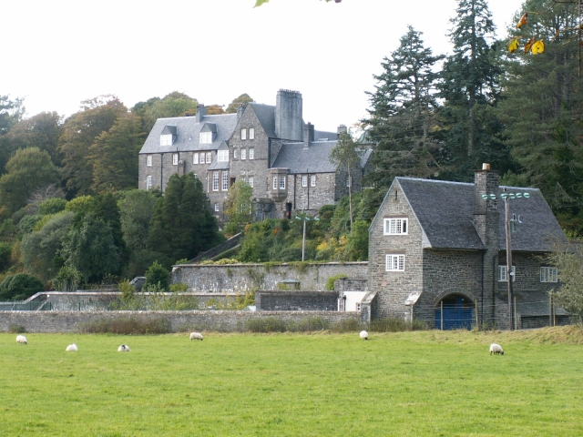 Arisaig House, Borrodale. Building finished around 1939 of this second Arisaig House. This one was built as a replacement for an older house burnt to the ground around 1935. Requisitioned by the army before the owners could move in, it became the Staff HQ for the SOE in the Moidart / South Morar area and also acted as a training centre for agents going into occupied Europe. The team that assassinated Reinhardt Heydrich trained here before going to Prague. Released back to the owners after the war it remained the HQ of Arisaig Estate until sold in the 1970s.